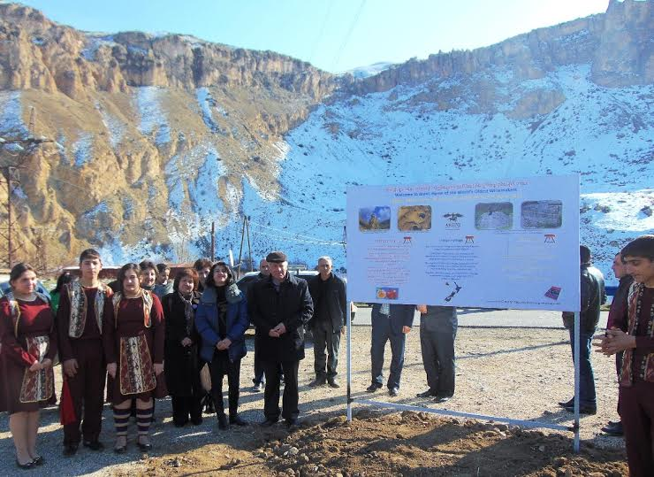 Areni Sign Ceremony.jpg